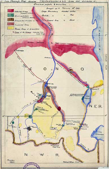 Dr Yale Massey's Map showing trypanosomiasis areas and distribution of Glossina palpalis and moristans brought up to 14 February 1907 in the Belgian Congo, Africa. Sleeping Sickness in the Belgian Congo. The map shows that the disease was spreading along the banks of rivers.